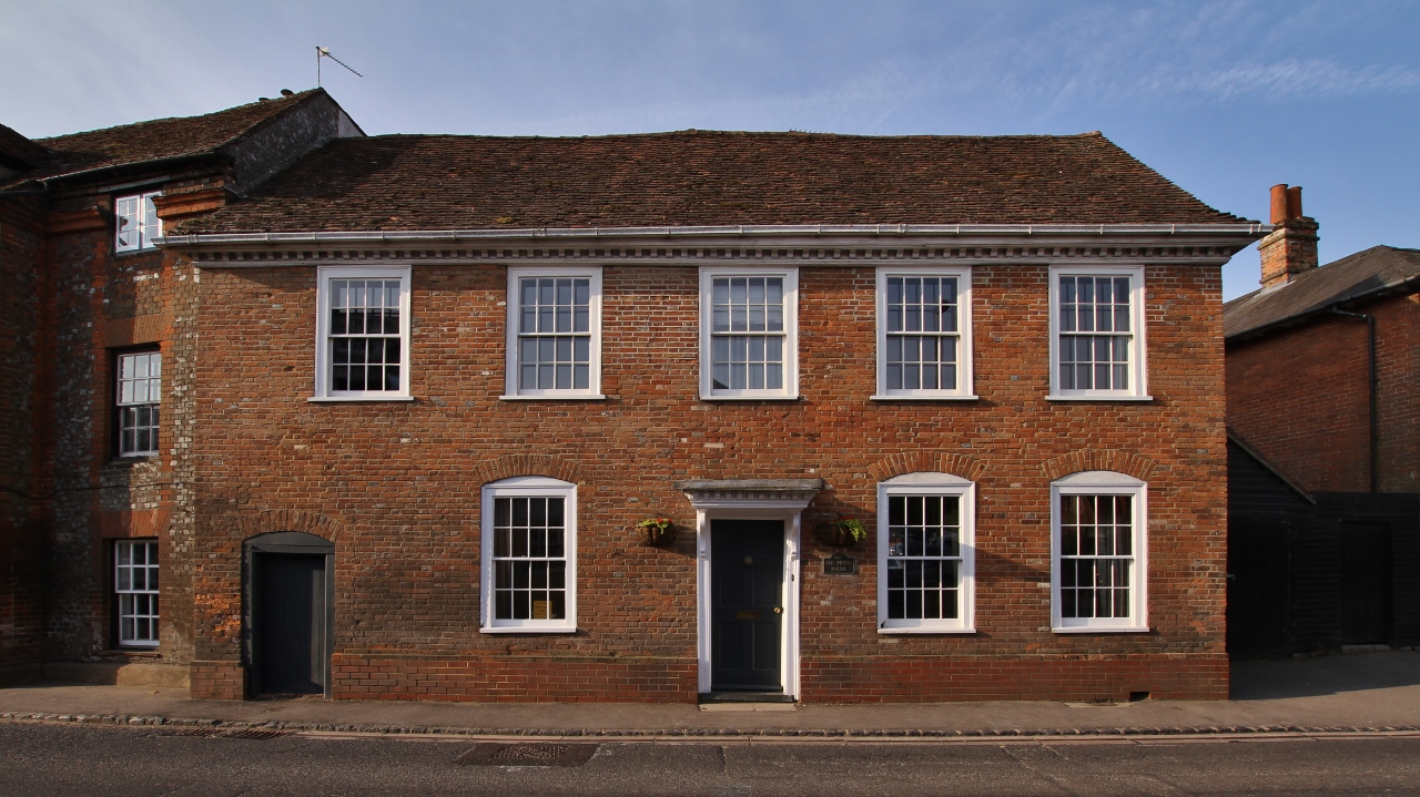 25 High Street, Nettlebed, Oxfordshire, seen from the north